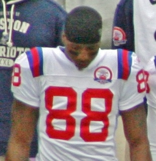 A panorama of the New England Patriots bench when they were visitors at a game in Denver at INVESCO Field at Mile High on October 11, 2009. Link to roster w/uniform numbers